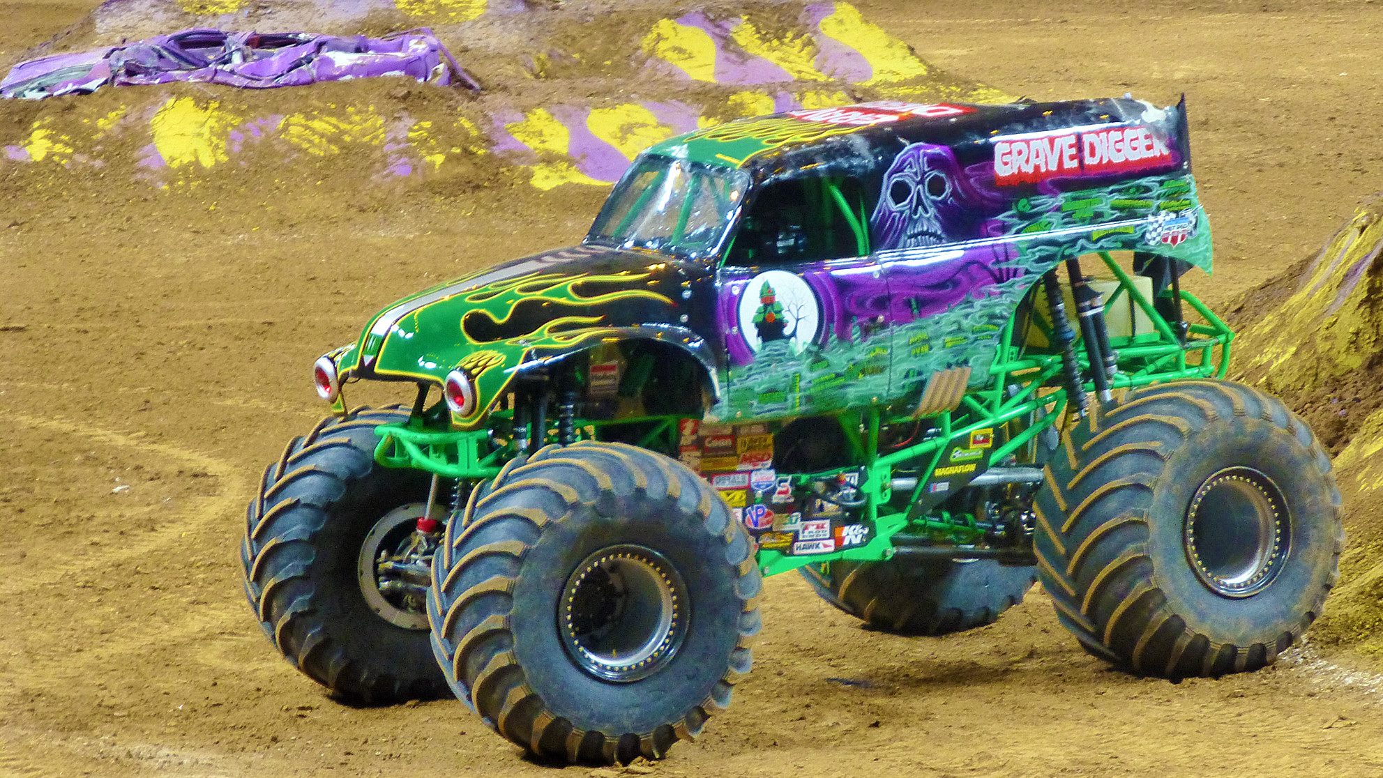 This is a pic of Grave Digger at Monster Jam, in Saint Louis, Missouri, at the Edward Jones Dome, February 1st, 2014.